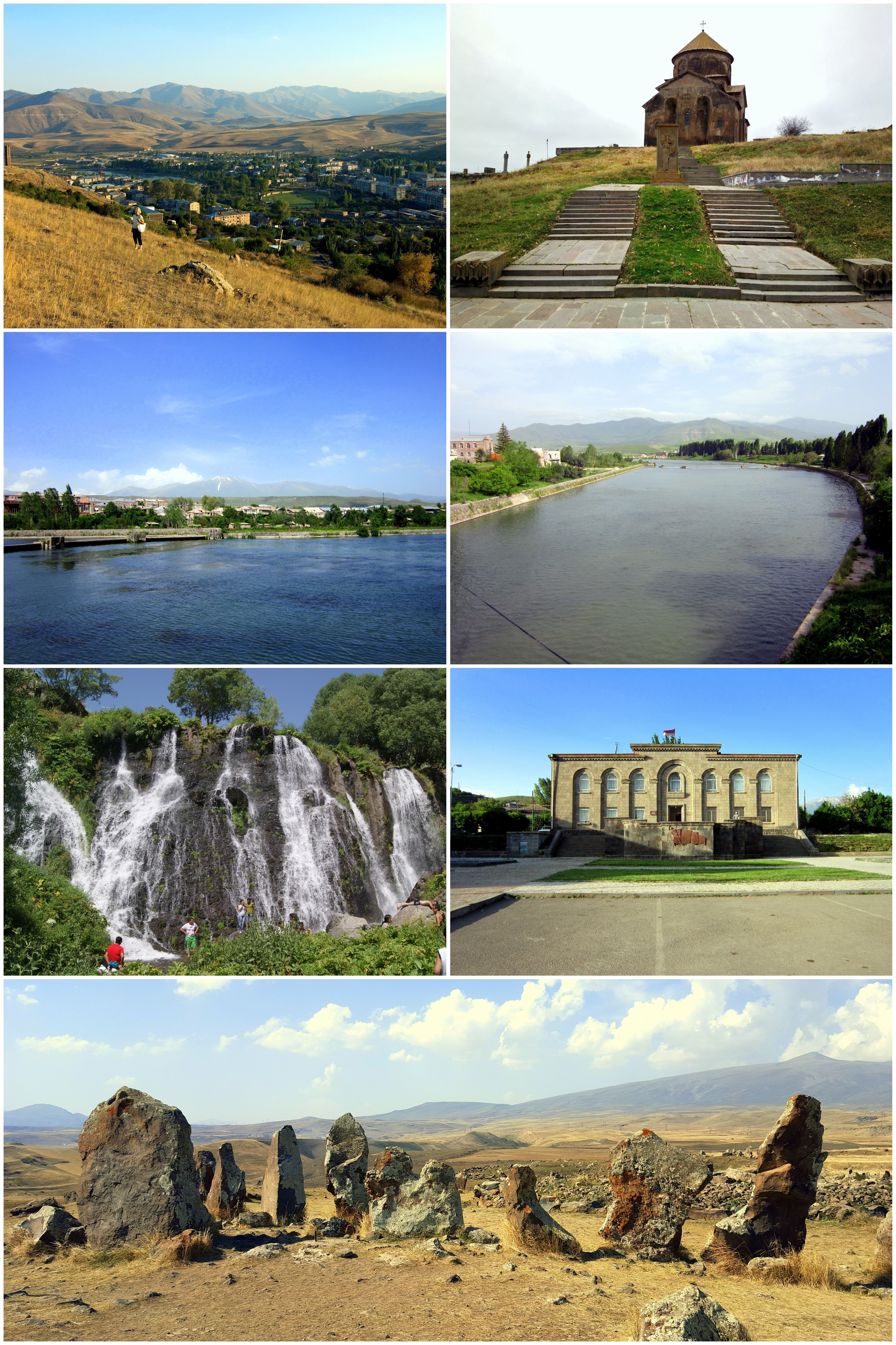 Sisian town collection. Syunik, Armenia.